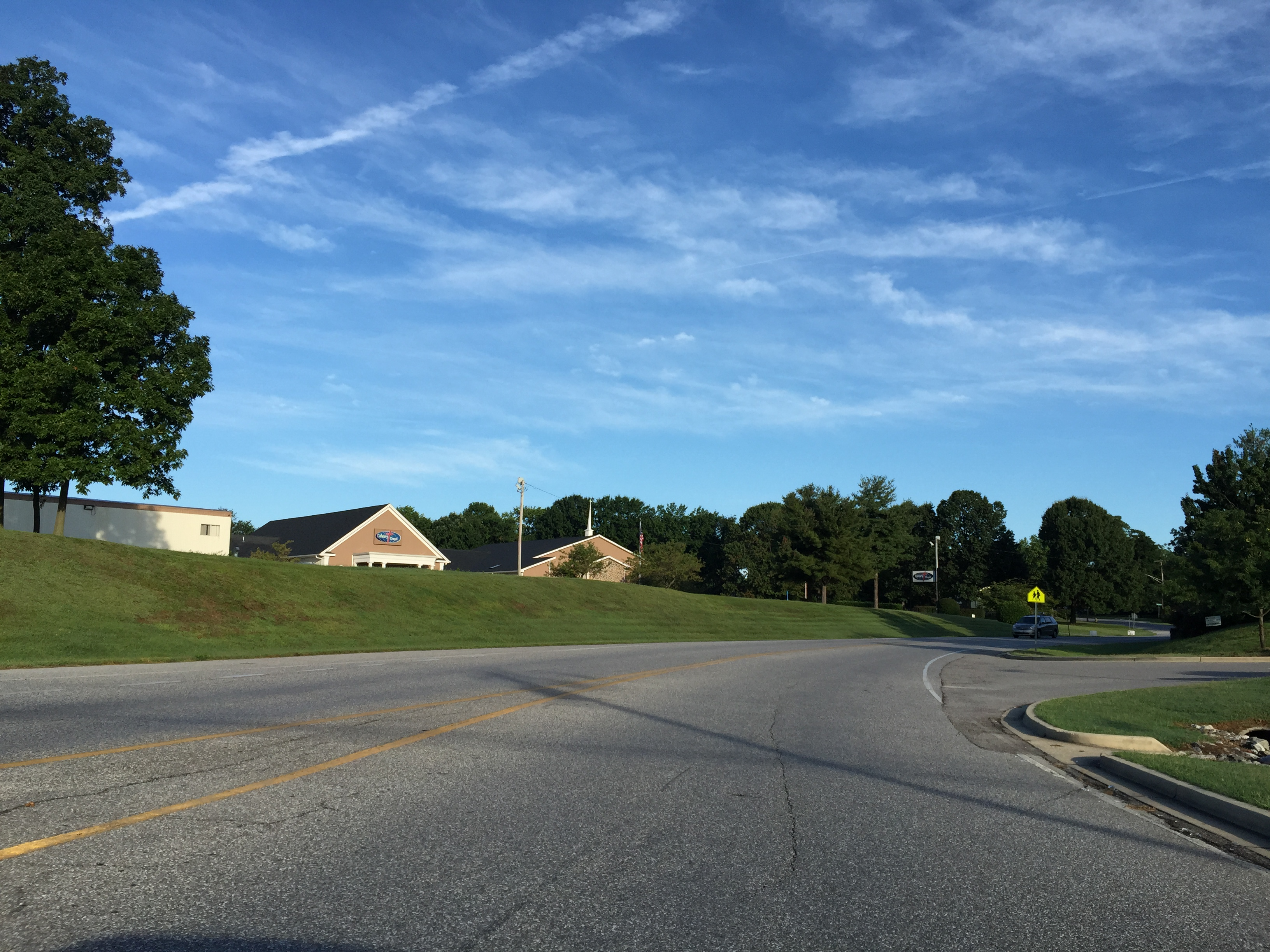 View north along Maryland State Route 997 (Stevenson Road) at Maryland State Route 3 Business (New Cut Road) in Severn, Anne Arundel County, Maryland